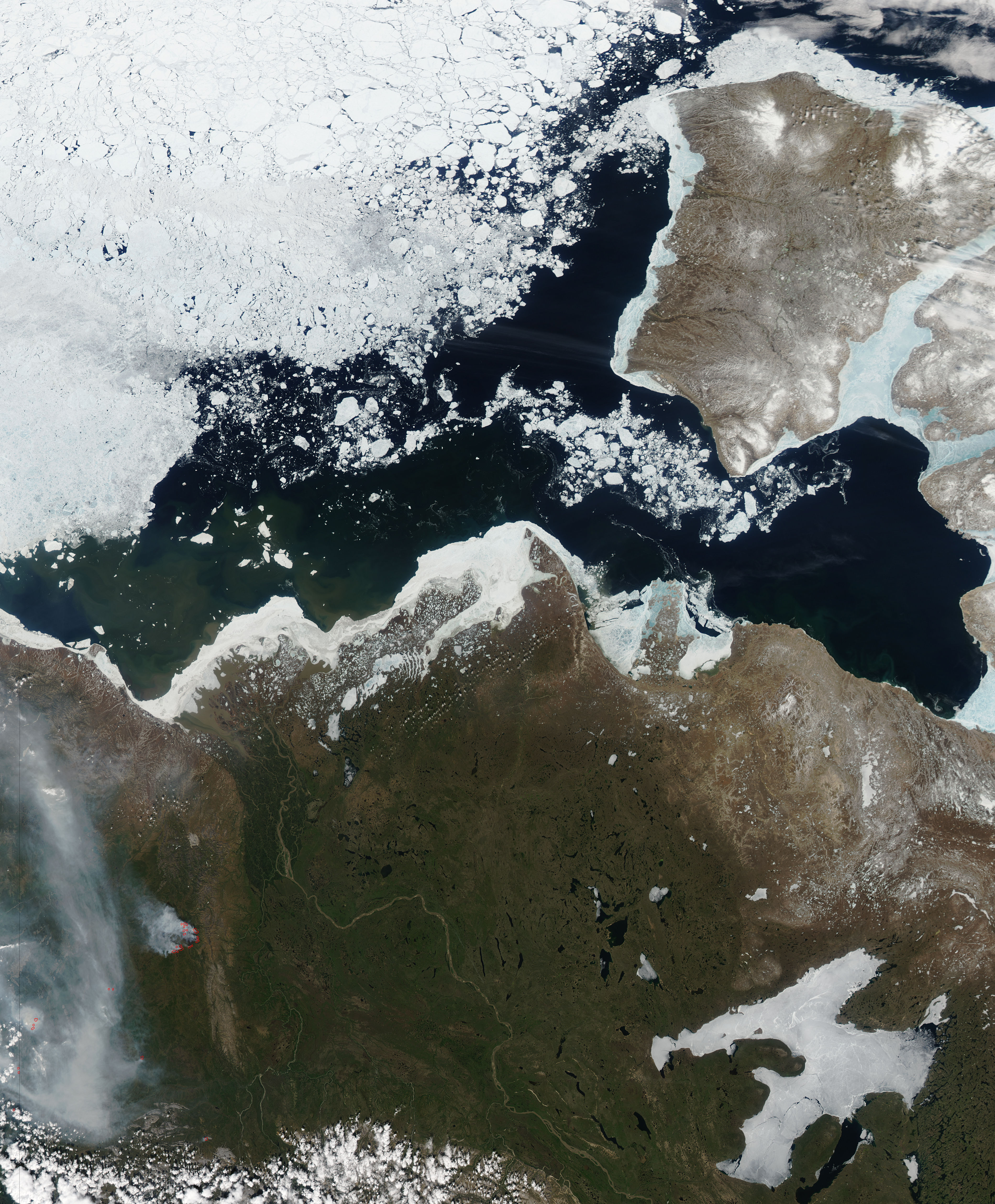 This image shows the western Canadian Arctic a few days after perpetual sunlight commenced for the entire region. The image captures the Arctic in a moment of transformation. Signs of winter are still present, but summer is clearly on the horizon. Sea ice in the Beaufort Sea has started to break up. A swath of open water, black in this image, separates the land from the dense pack of sea ice. Ice still fringes much of the land, but it is thinning. In many places, particularly around Banks Island, the land-bound sea ice is blue, pointing to thin ice or the presence of water on the ice. Spring is beginning to touch land as well. While frozen lakes punctuate the landscape with white, many lakes are clear. The Mackenzie River flows ice-free to a broad partially frozen delta. Trapped behind a dam of ice, the muddy brown waters blur across the triangular delta. The water that is getting through the ice carries sediment into the Beaufort Sea, colouring the waters near the shore brown and green. With access to constant light, flowing water, and warmer temperatures, plants are beginning to grow. The land around the Mackenzie River has a deep green hue. The line between tundra and forest runs through this image. The forest is dark green, while the tundra is still brown. The land also shows the first sign of summer: large forest fires. One large forest fire is outlined in red. Smoke from nearby fires flows across the lower left corner of the image. The boreal forest needs fire to maintain the ecosystem, and large fires happen regularly in the summer. In the remote region shown here, lightning ignites most forest fires.